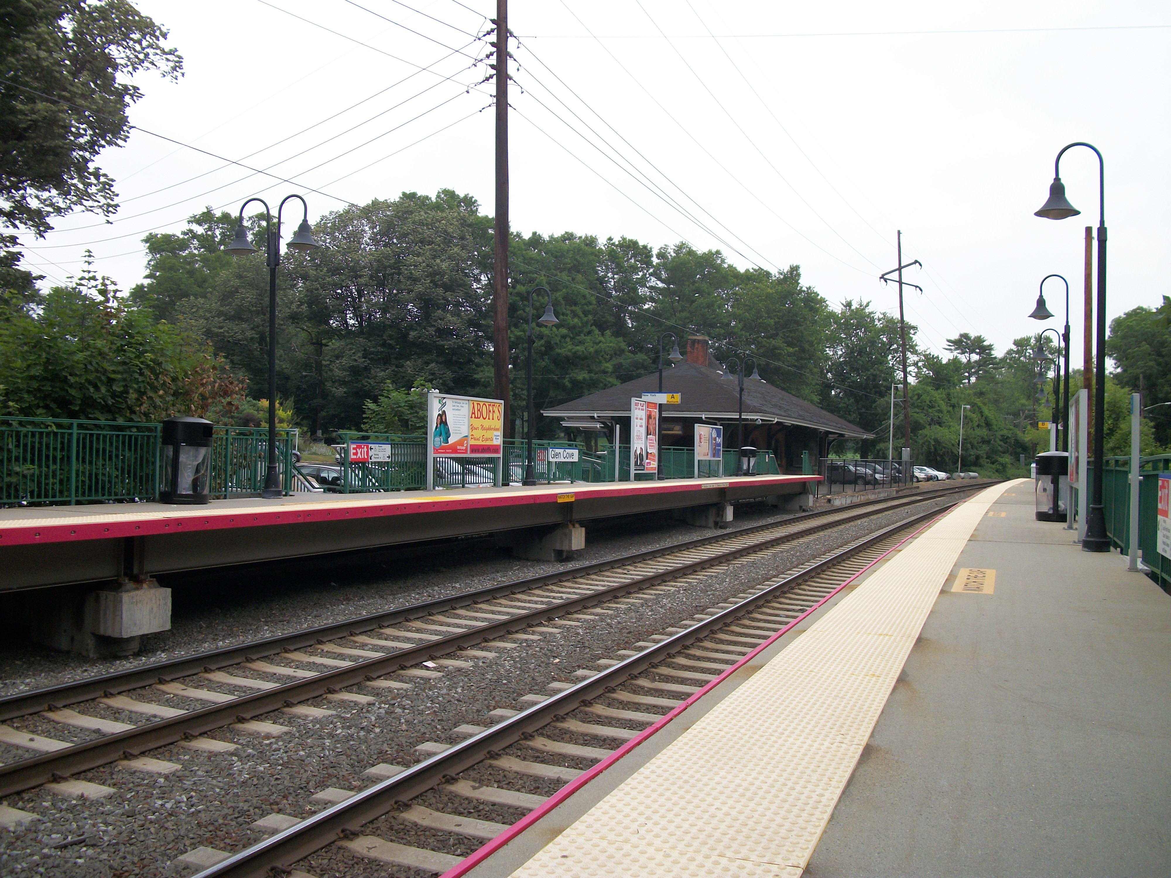 An attempt to capture a contemporary view of Glen Cove (LIRR station) in Glen Cove, New York from an angle similar to that of File:PostcardGlenCoveNYNassauStation1907.jpg. You'll find some obvious differences in surrounding structure compared to that of 1907.